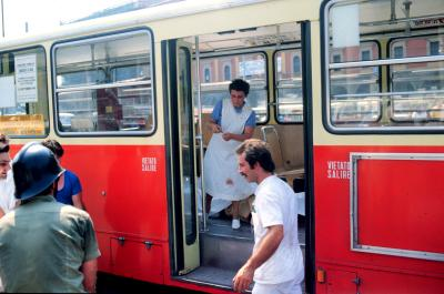 Bombing at Bologna: August 2nd 1980